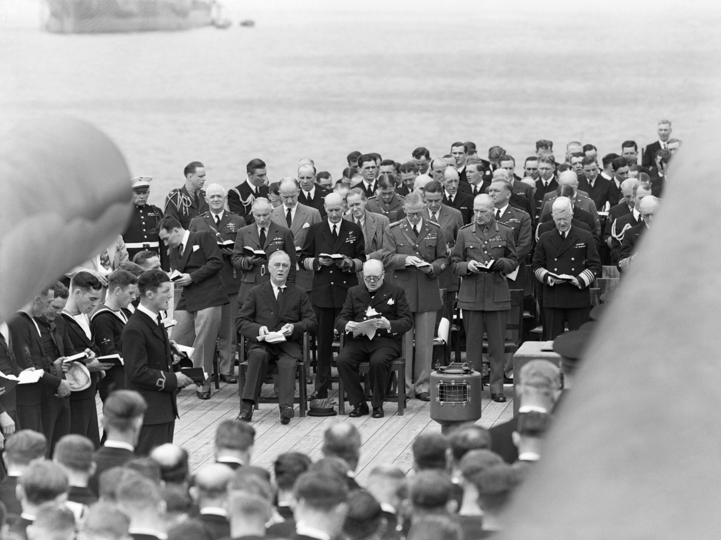 President Roosevelt and Winston Churchill seated on the quarterdeck of HMS PRINCE OF WALES for a Sunday service during the Atlantic Conference, 10 August 1941. The President of the United States and the Prime Minister of the United Kingdom are seated on the Quarterdeck of HMS PRINCE OF WALES for a Sunday service, during the Atlantic Conference, 10 August 1941. In the row behind them, left to right: Air Chief Marshal Sir Wilfred Freeman; Admiral E J King; USN; General Marshall; General Sir John Dill; Admiral Stark, USN; Admiral Sir Dudley Pound. Next row back, left to right: General Arnold, USAAF; Mr Sumner Wells; Mr Harry Hopkins; Mr A W Harriman; Major General E M Watson, US Army. On the left behind General Arnold are the President's sons, Captain Elliot Roosevelt (left) and Ensign Franklin Roosevelt. Also assembled are the crew of HMS PRINCE OF WALES.